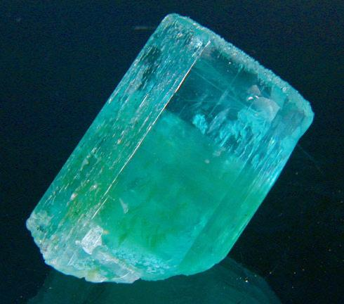 Beryl Locality: Nyet, Shigar Valley, Skardu District, Baltistan, Northern Areas, Pakistan (Locality at ) Size: small cabinet, 8.2 x 5 x 4.9 cm Aquamarine/Heliodor This amazing specimen seems to be an aquamarine overgrowing a heliodor core, with interesting green feathery inclusions that I have no clue what we are looking at. Depending on lighting and background, it is either a really blue aqua or a neon blue aqua...in either case, no matter how you look at it, the color is truly phenomenal and frankly the best color i have seen in a Paki aqua in years. I am told that it was a freak piece, mined alone only several months before the show. It is completely crysatllized around all sides. The top is terminated, though with an interesting ridged texture to it like you more often see in heliodor than in aquamarine. Despite its fatness, it is remarkably pristine save only one ding on a back edge. I just think its a fantastic, colorful, and really interesting specimen. As well, the qay gem pegmatite prices are going up these days, its just a good large aqua at a fair price, anyhow. Weight on this hefty crystal is 352 grams 8.2 x 5 x 4.9 cm